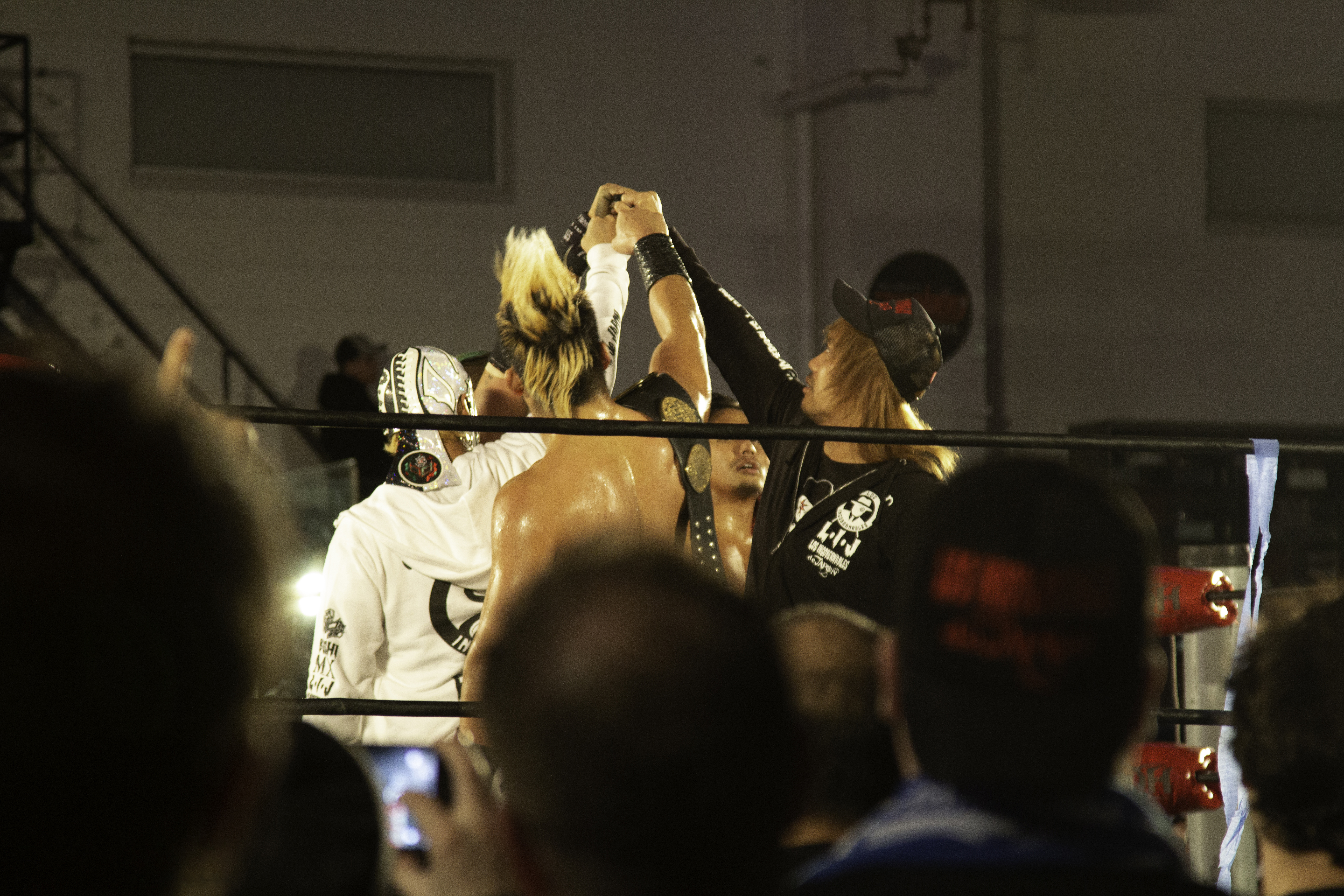 Los Ingobernables de Japon at ROHxNJPW Global Wars 2018 in May 2018. From left to right: Bushi, Sanada, Hiromu Takahashi and Tetsuya Naito. Evil can also be partially seen behind Bushi.